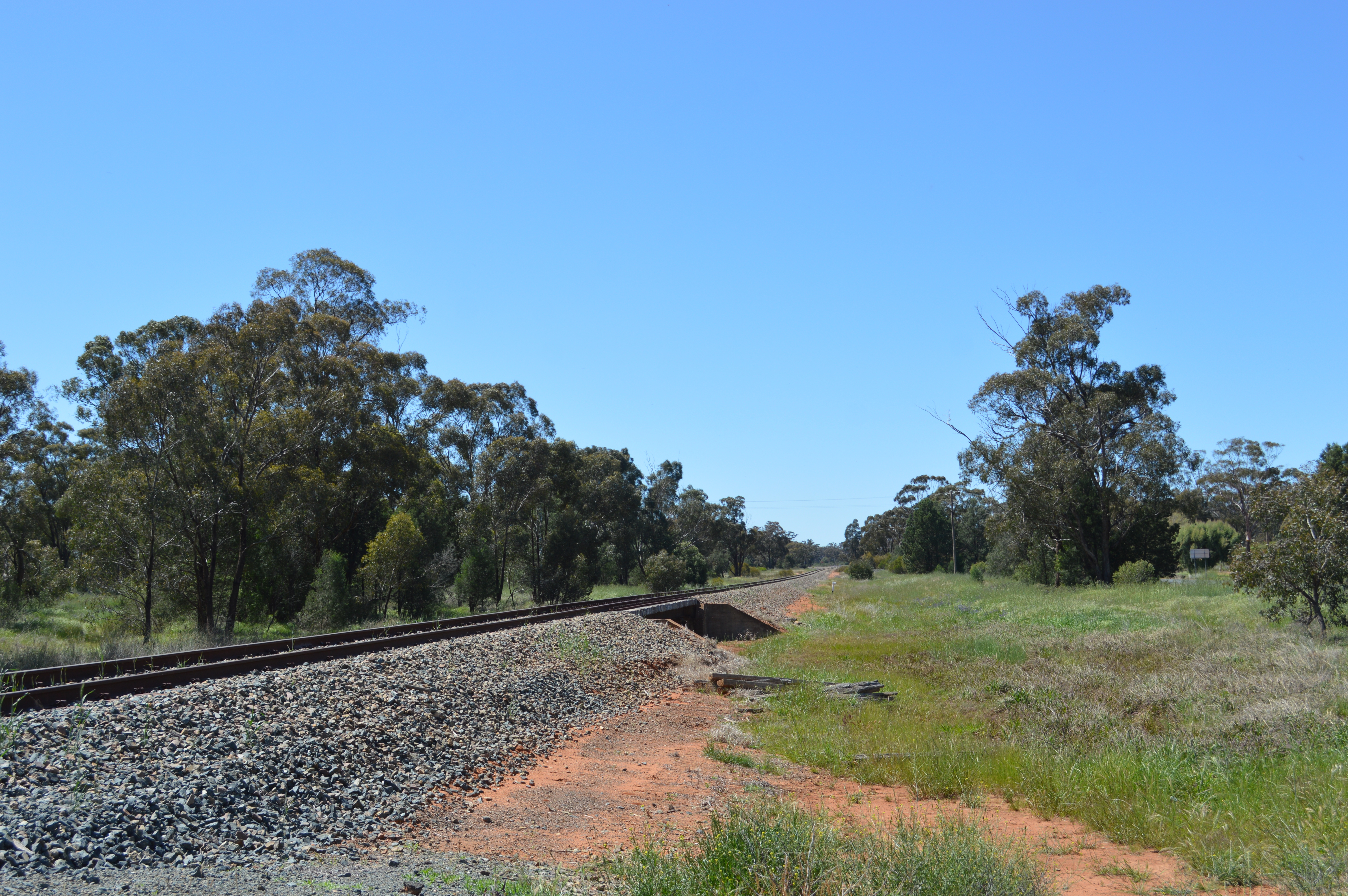 Naradhan railway line at Kikoira, New South Wales